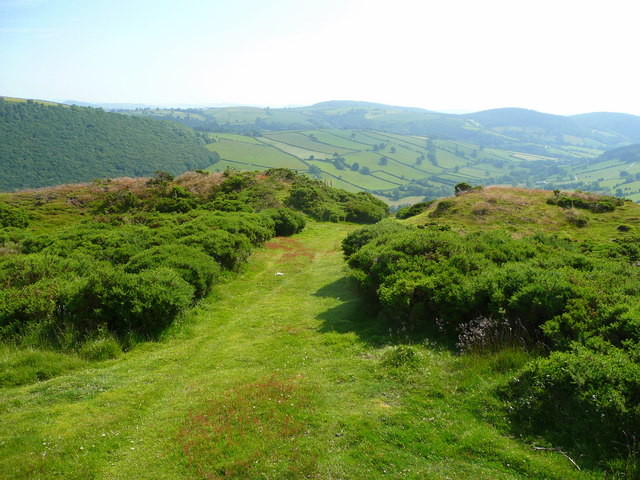 View east from Caer Caradoc, Chapel Lawn This is the eastern end of the iron-age hill fort near the head of the Redlake Valley - seen in the distance. for an aerial view showing the three concentric ramparts.